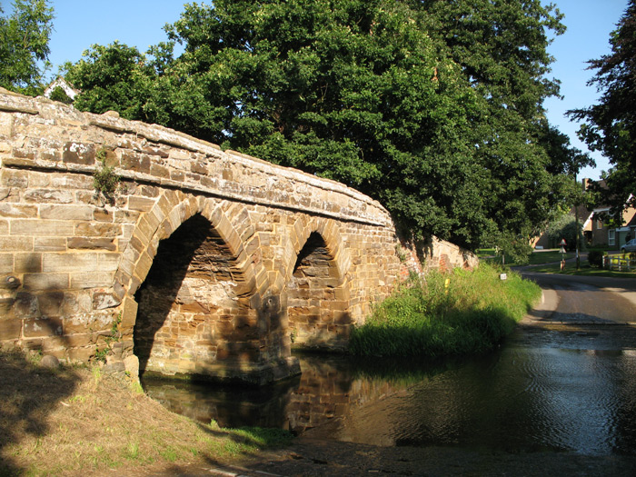 Medieval packhorse bridge and ford at Sutton in Bedfordshire, England